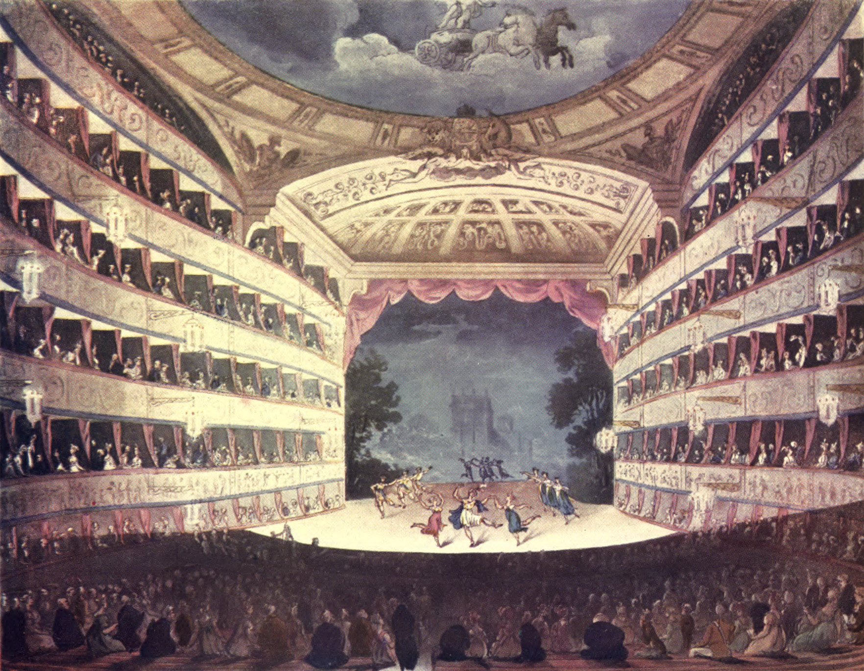 Opera House